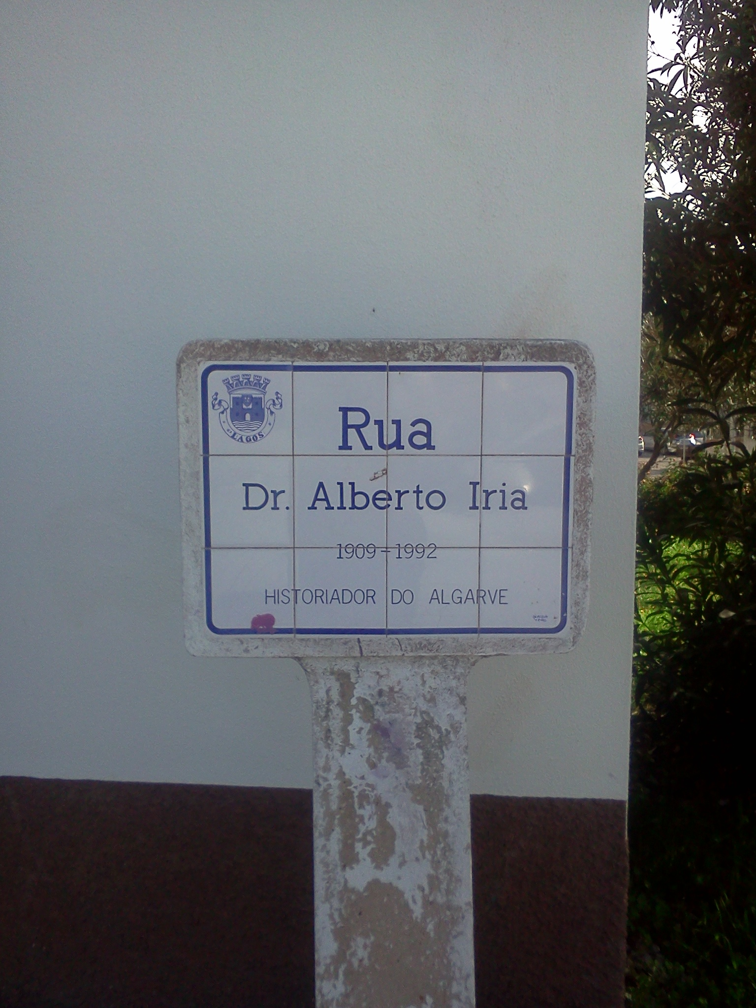 Street sign of Rua Dr. Alberto Iria, in the city of Lagos, in southern Portugal.